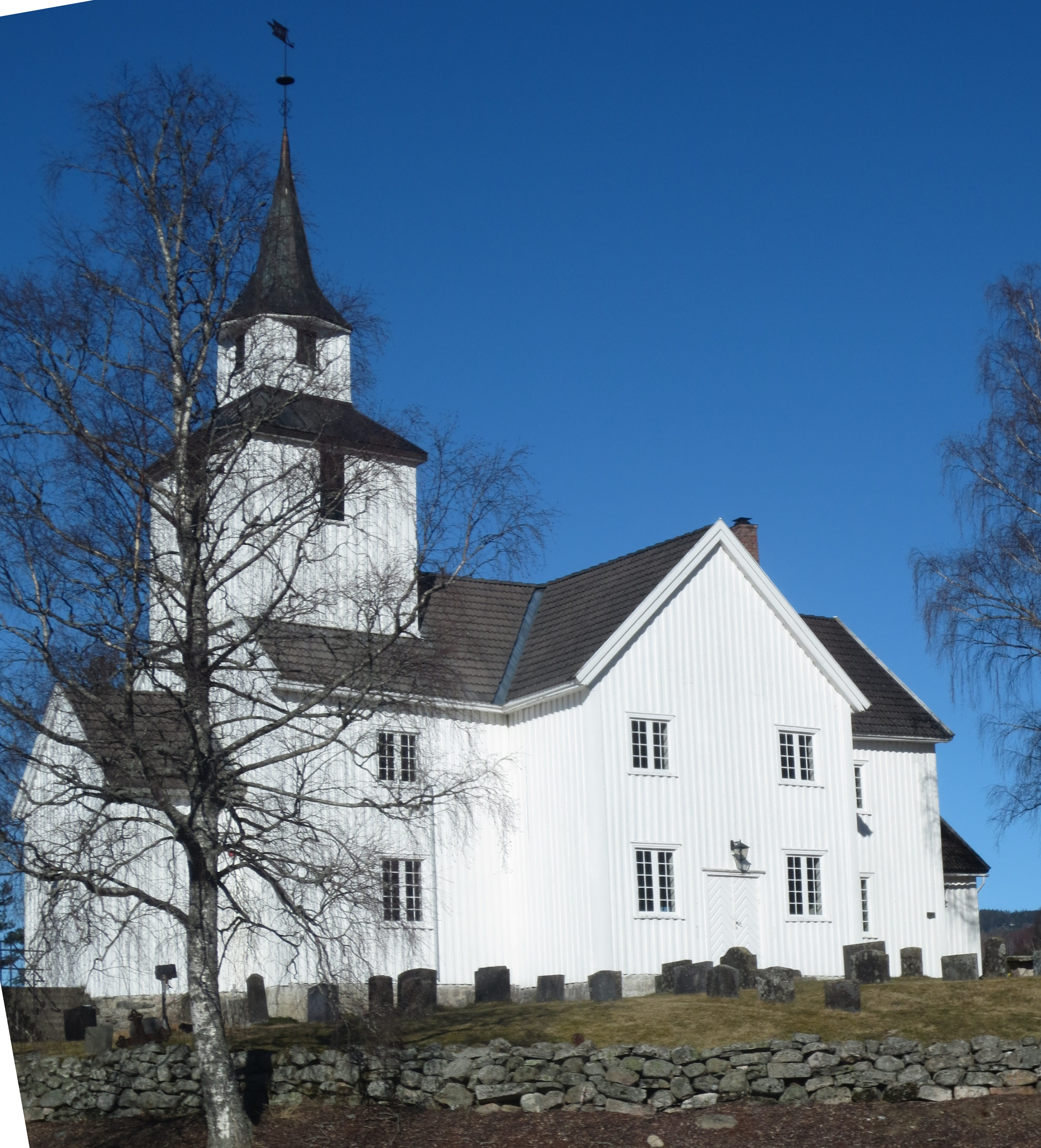 Bygland Kyrkje is a church in the settlement and municipality of Bygland, in Aust-Agder county, Norway